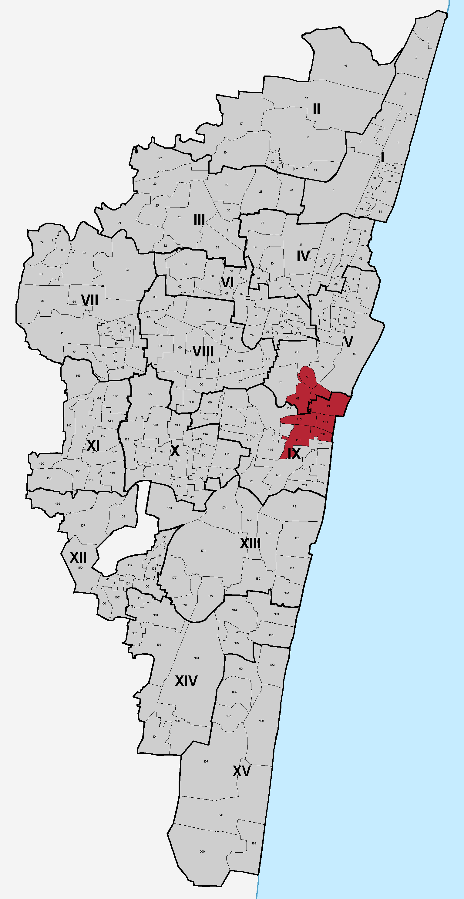 Location of Chepauk-Trimplicane assembly constituency in Chennai